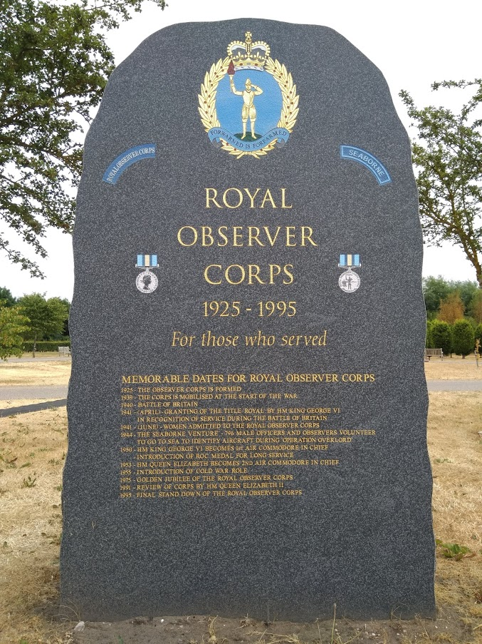 Royal Observer Corps Memorial Stone at the National Arboretum Memorial. Alrewas, Staffordshire. England.UK.